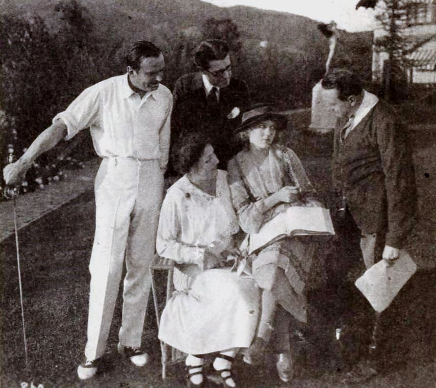 Still of the United Artists advisory committee for the script for the American film The Three Musketeers (1921) with Douglas Fairbanks, Kenneth Davenport (who wrote the screenplay for The Nut (1921)), screenwriter Lotta Woods, United Artists producer and actress Mary Pickford, and screenwriter Edward Knoblock, on page 59 of the April 23, 1921 Exhibitors Herald.